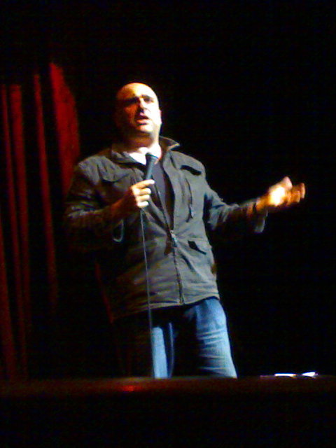 Omid Djalili Omid on his 'No Agenda' tour - also he is warming up for his new BBC1 show, so there was a lot of extra material that was not in earlier versions of 'No Agenda'...